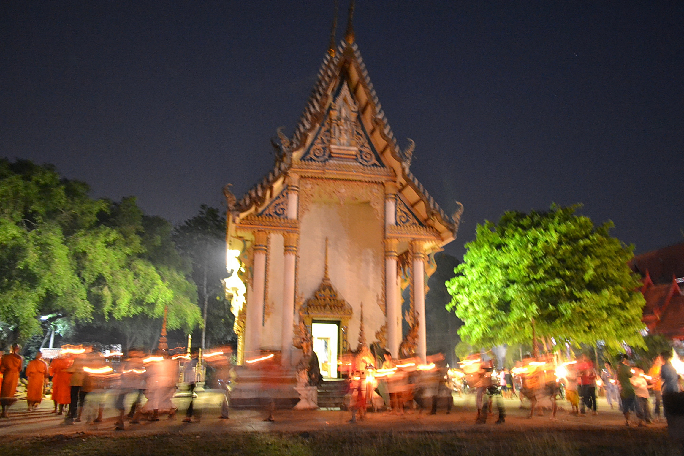 Magha Puja Location: Wat Khung Taphao Ban Khung Taphao, Khung Taphao subdistrict, Mueang Uttaradit, Uttaradit Province, Thailand.